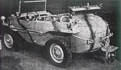 A picture of a Schwimmwagen from the December 1944 issue of the Intelligence Bulletin.